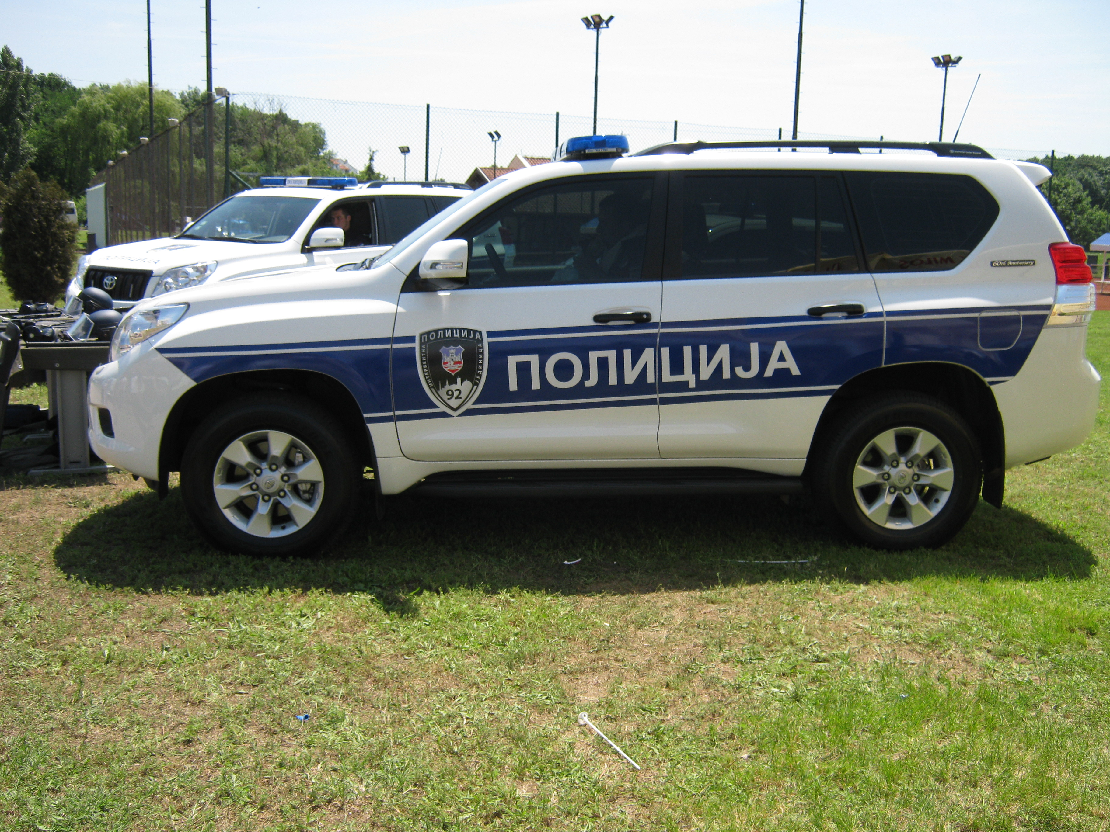 Toyota Land Cruiser Prado 150-series as Special Belgrade Task Force Vehicle of Serbian Police, immediate/ rapid response.